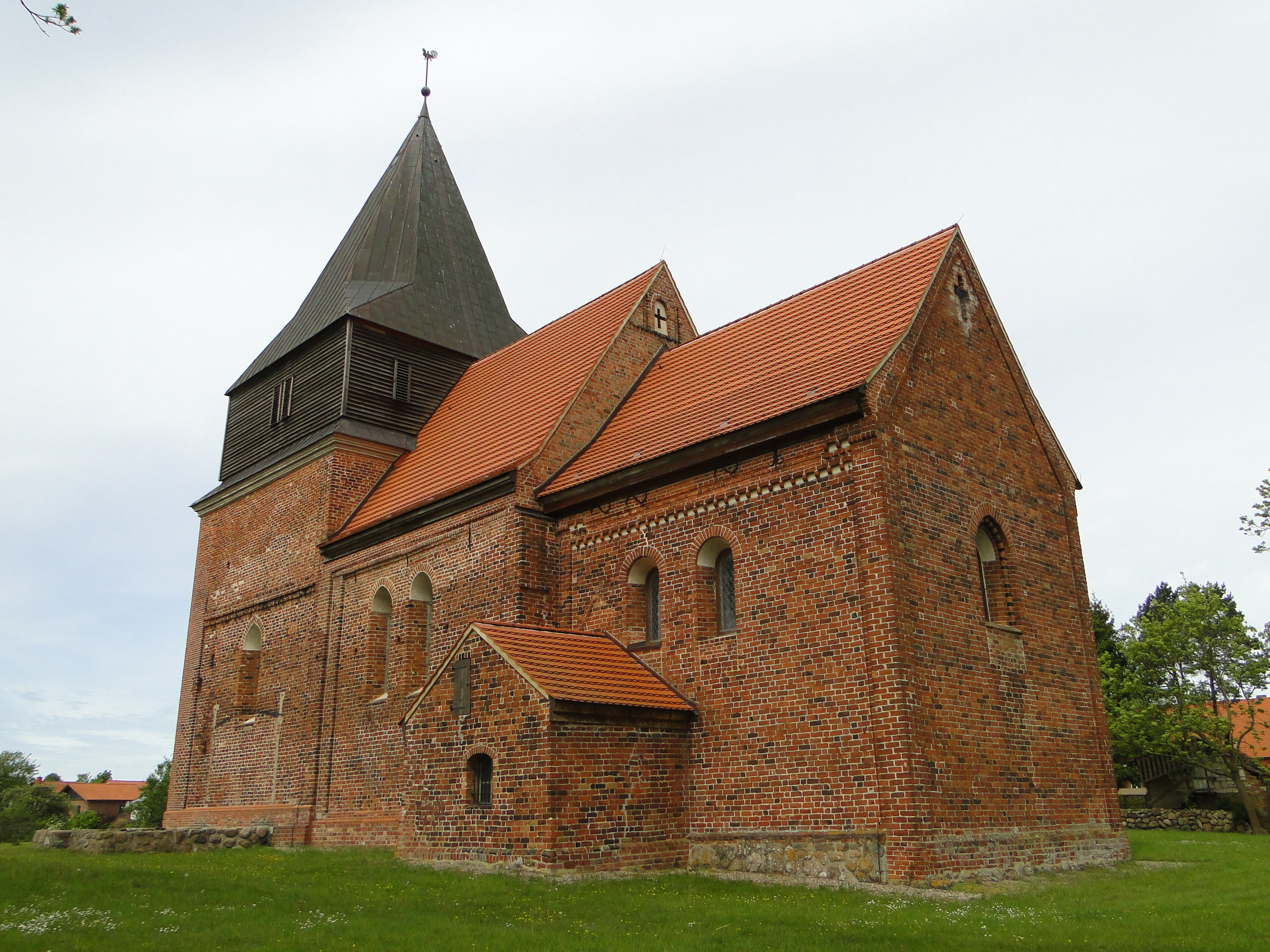 Church in Döbbersen, district Ludwigslust-Parchim, Mecklenburg-Vorpommern, Germany